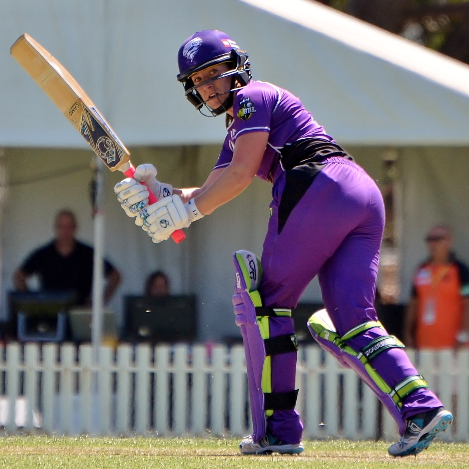 Hobart Hurricanes captain and all-rounder Isobel Joyce batting against the Perth Scorchers, in a WBBL match at Lilac Hill Park in Perth